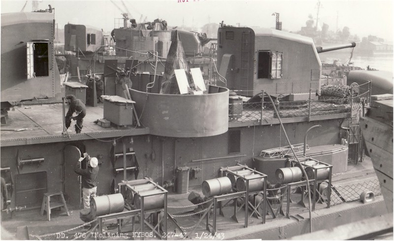 A close-up view of the U.S. Navy destroyer USS Hutchins (DD-476) at the Boston Naval Shiyard, Massachusetts (USA), on 24 January 1943, showing where two 20mm guns are mounted where normally a twin 40mm is mounted on top of a superstructure between #53 and #54 gun mounts.